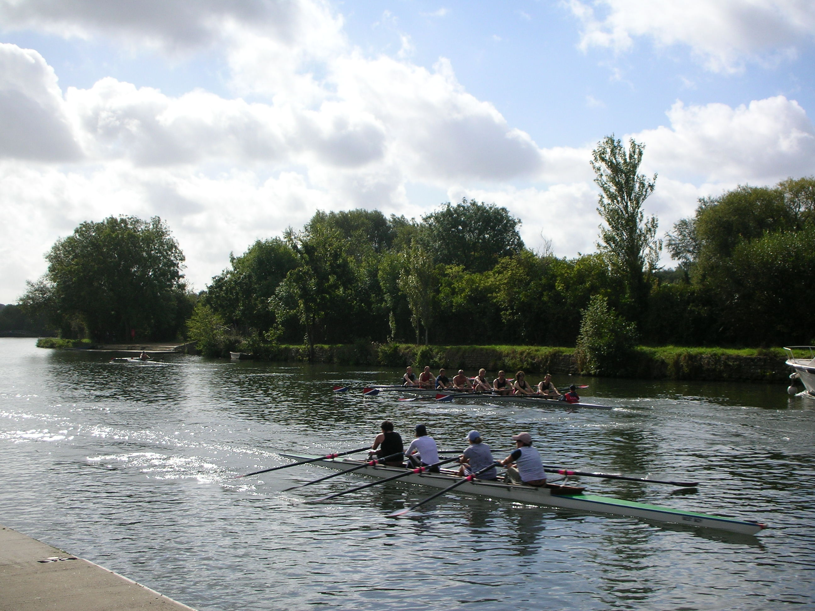 Rowing on the Isis at Oxford, England. Photograph by Jonathan Bowen, 25 September 2005.